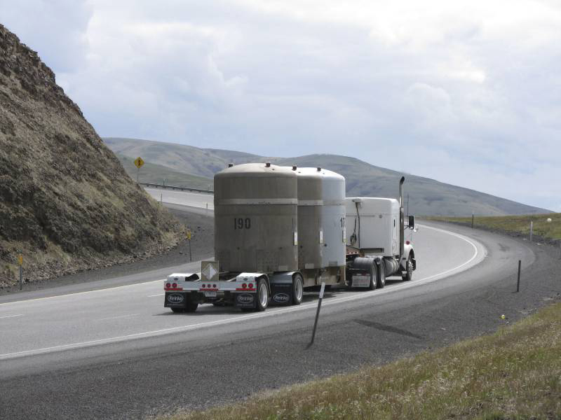 A transuranic waste shipment travels on an approved shipping route to the Waste Isolation Pilot Plant.